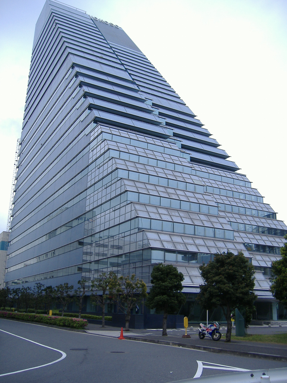 Yokoso Rainbow Tower (Tokyo, Japan)